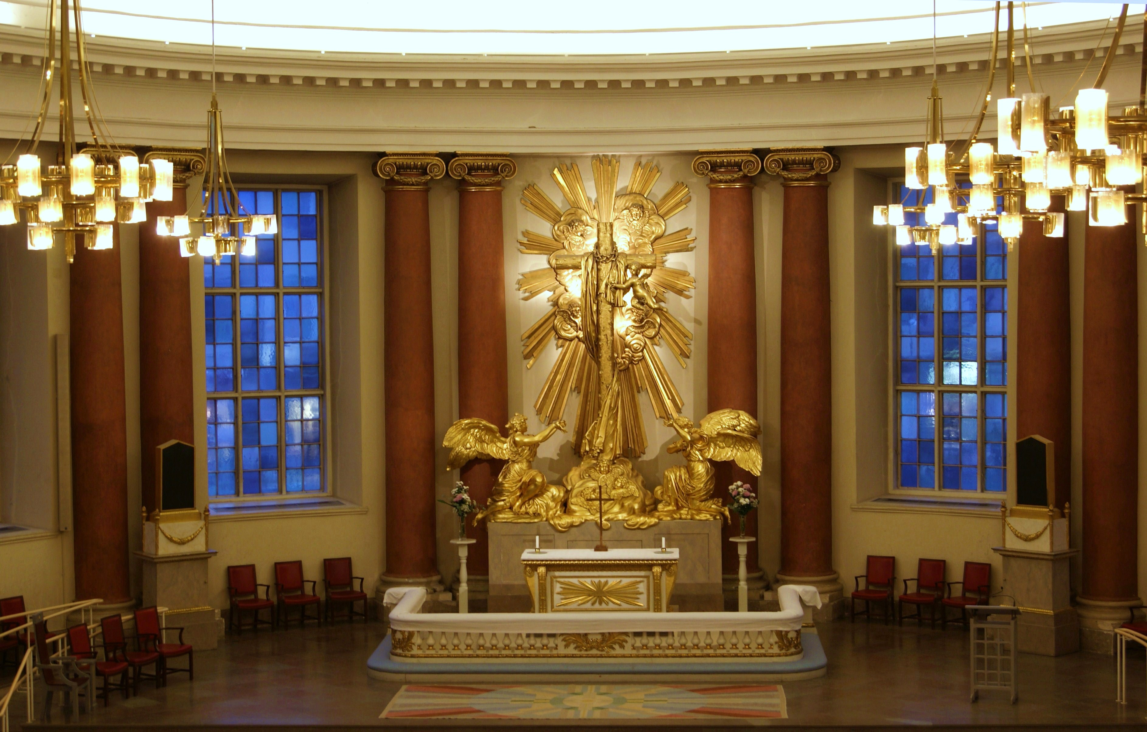 The altarpiece in Gothenburg Cathedral, Sweden.